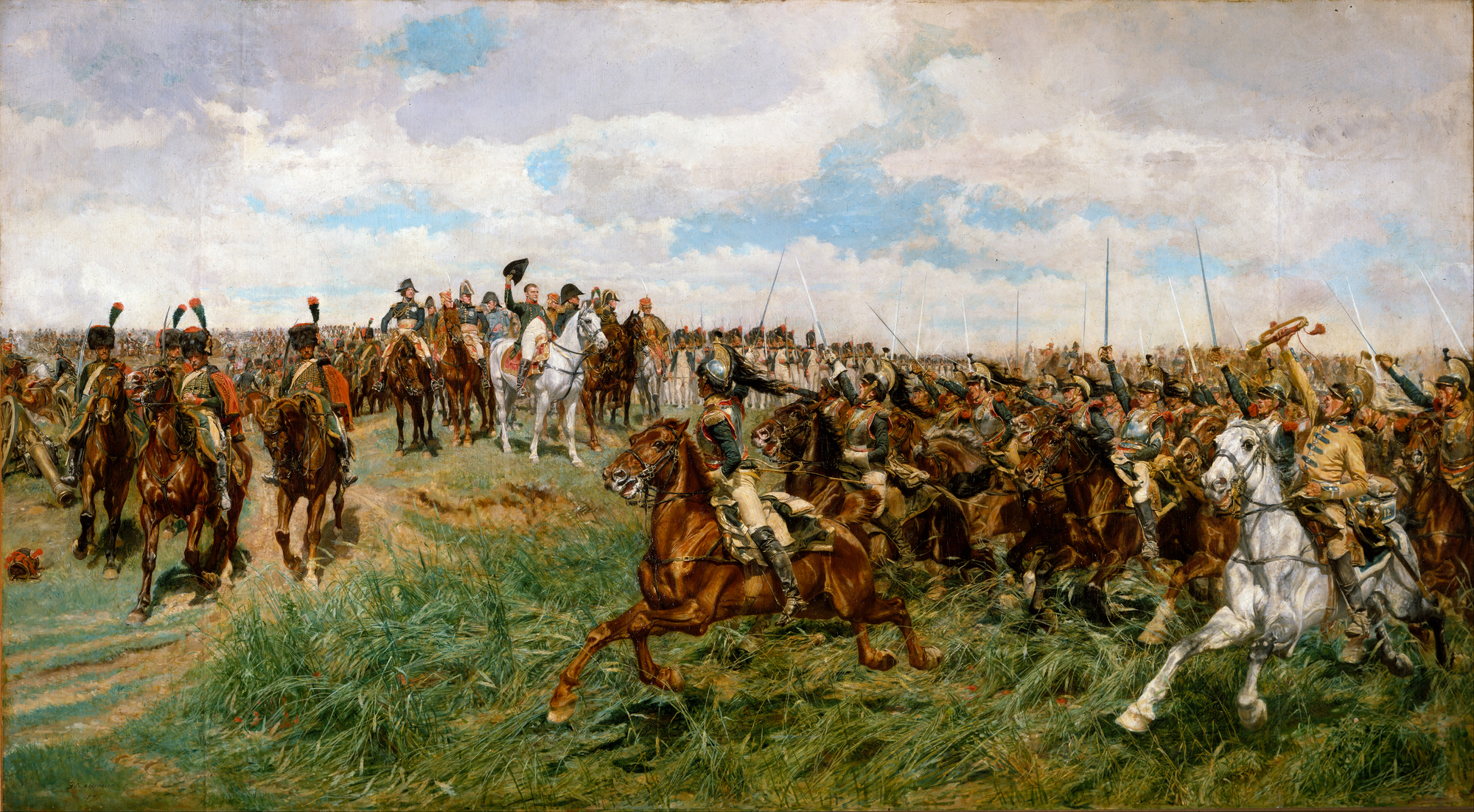 Friedland, 1807 (1861-1875). Oil on canvas, Metropolitan Museum of Art